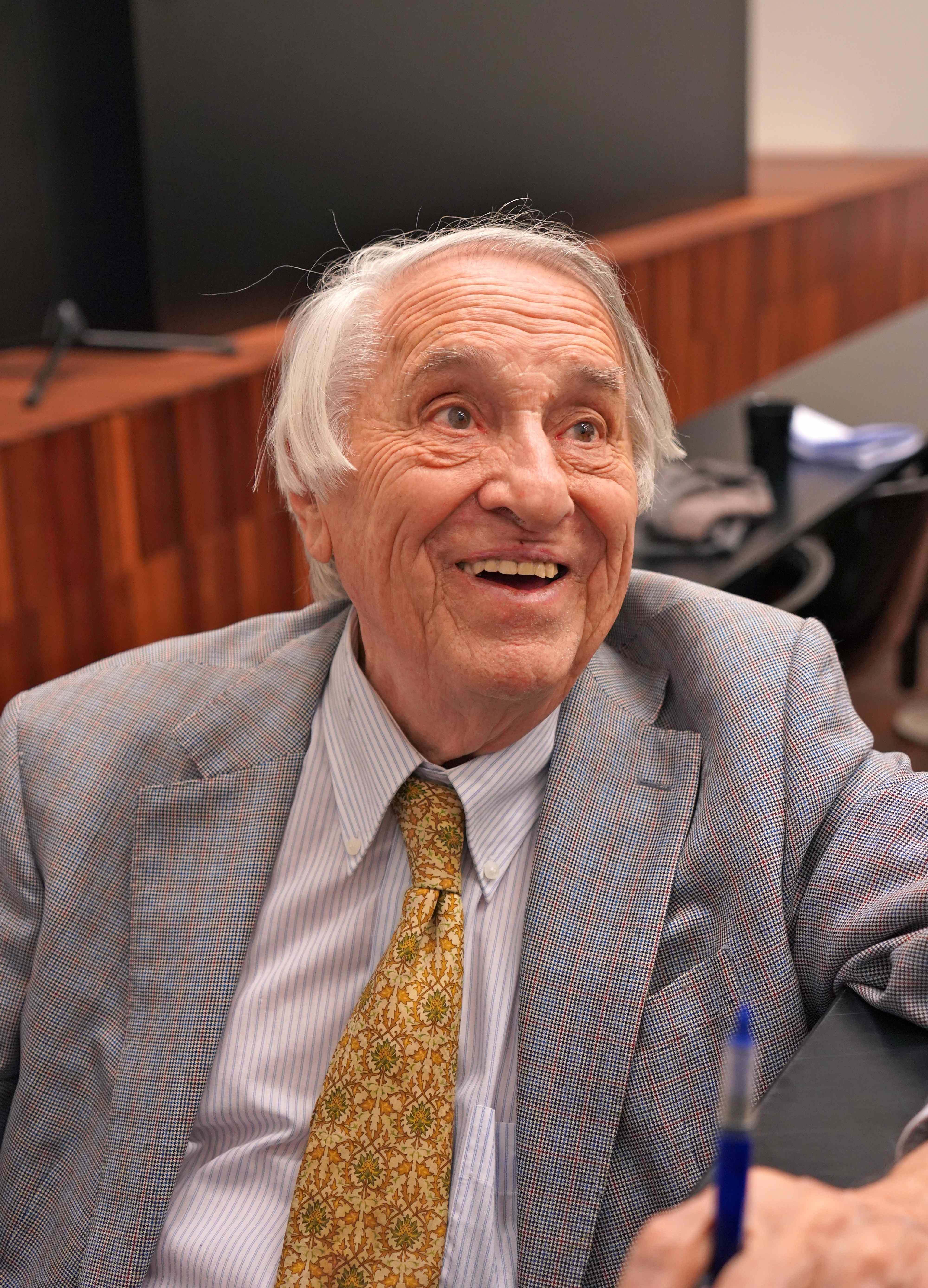 Jacques Claes during the signing session of his book De gebeurtenis Antwerpen on December 12, 2019